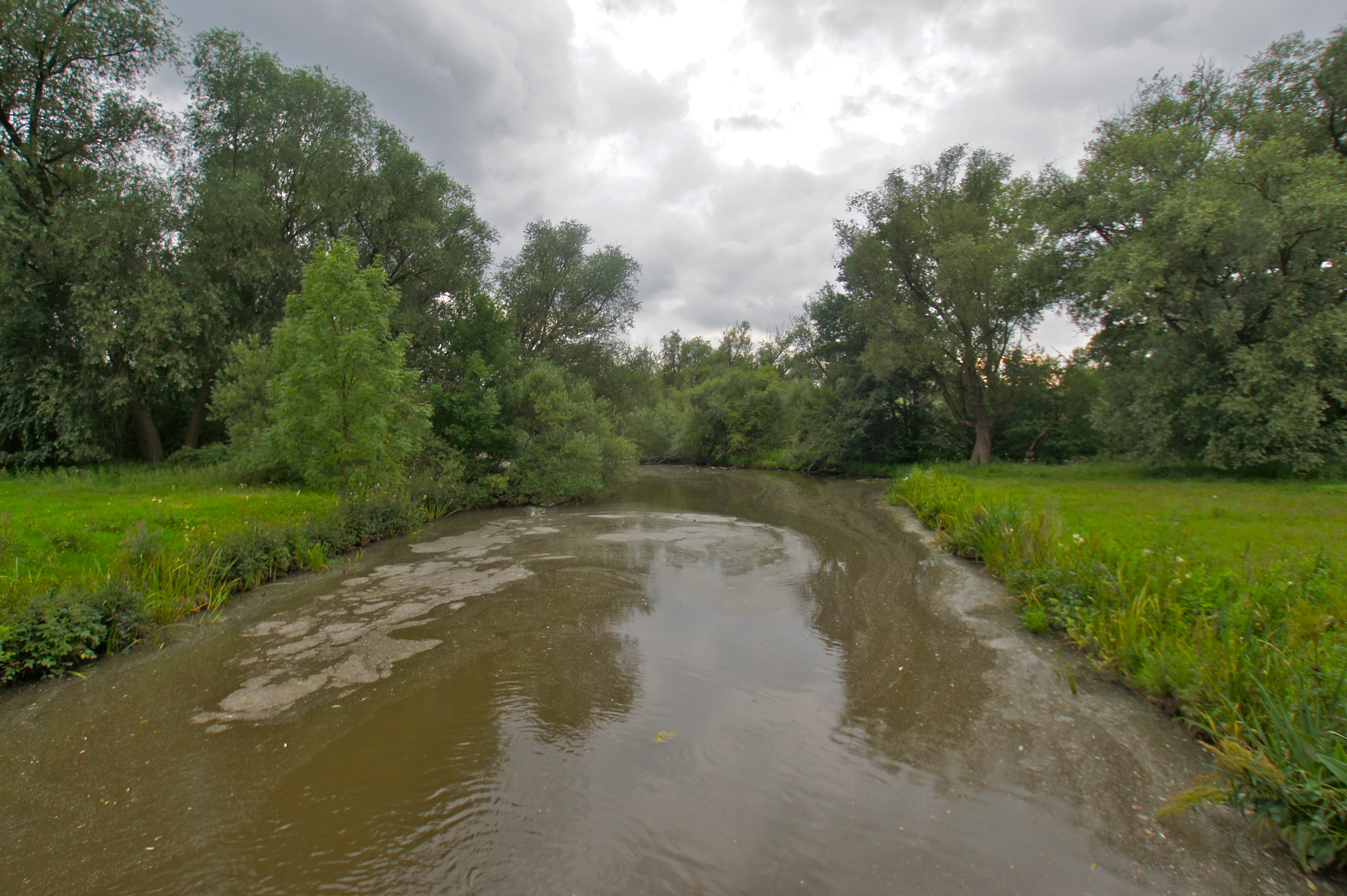 Hamburg (Wilhelmsburg), Germany: The Georgswerder Schleusengraben